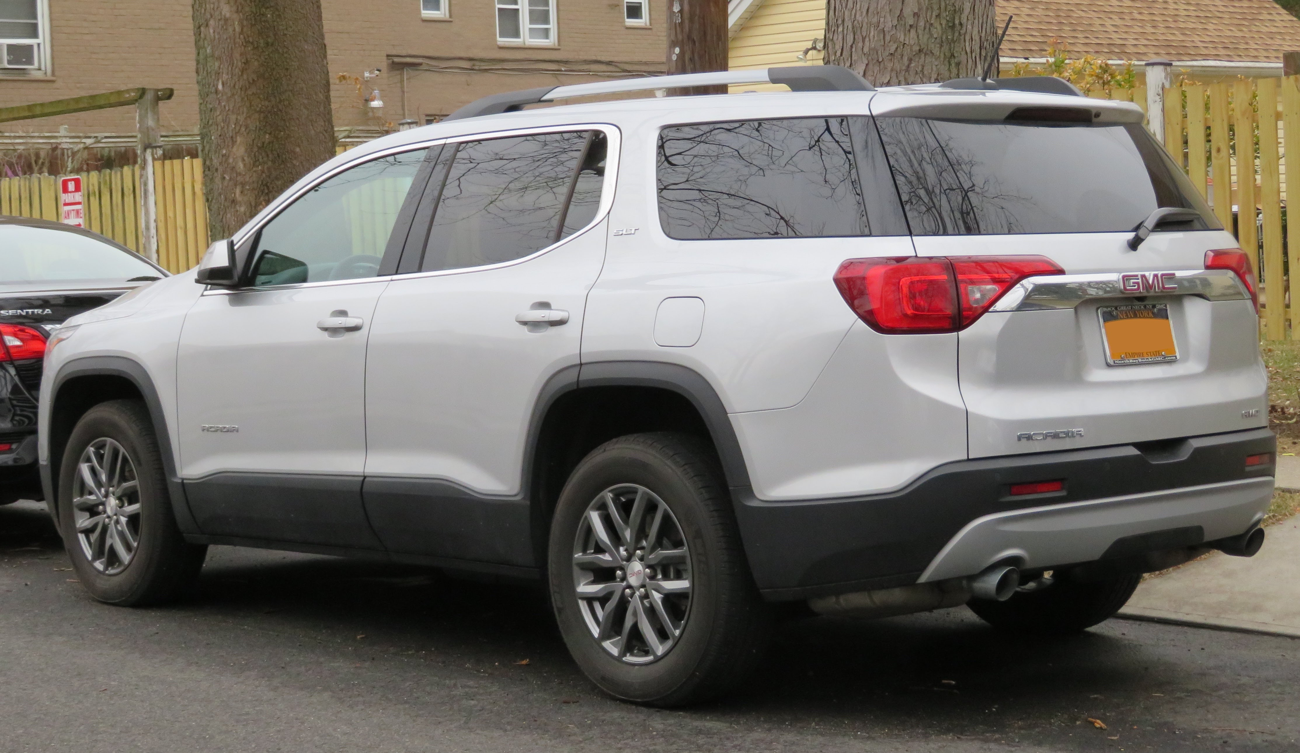 Spotted in Queens, New York